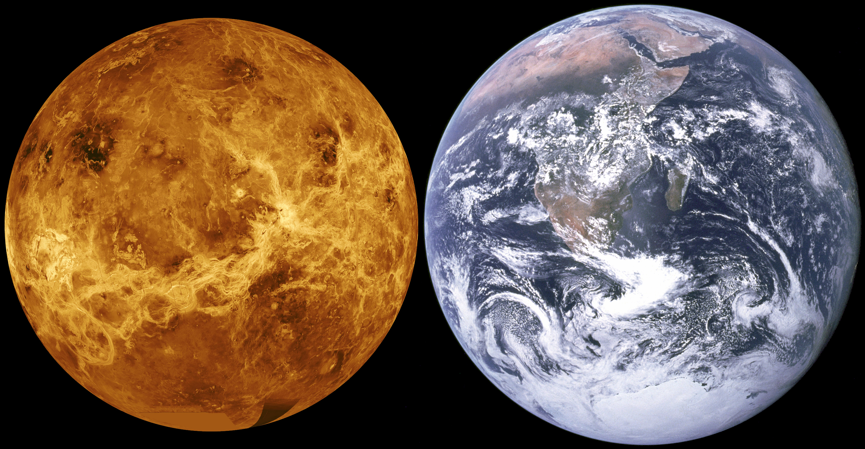 Size comparison of Venus and Earth. Approximate scale is 29 km/px.